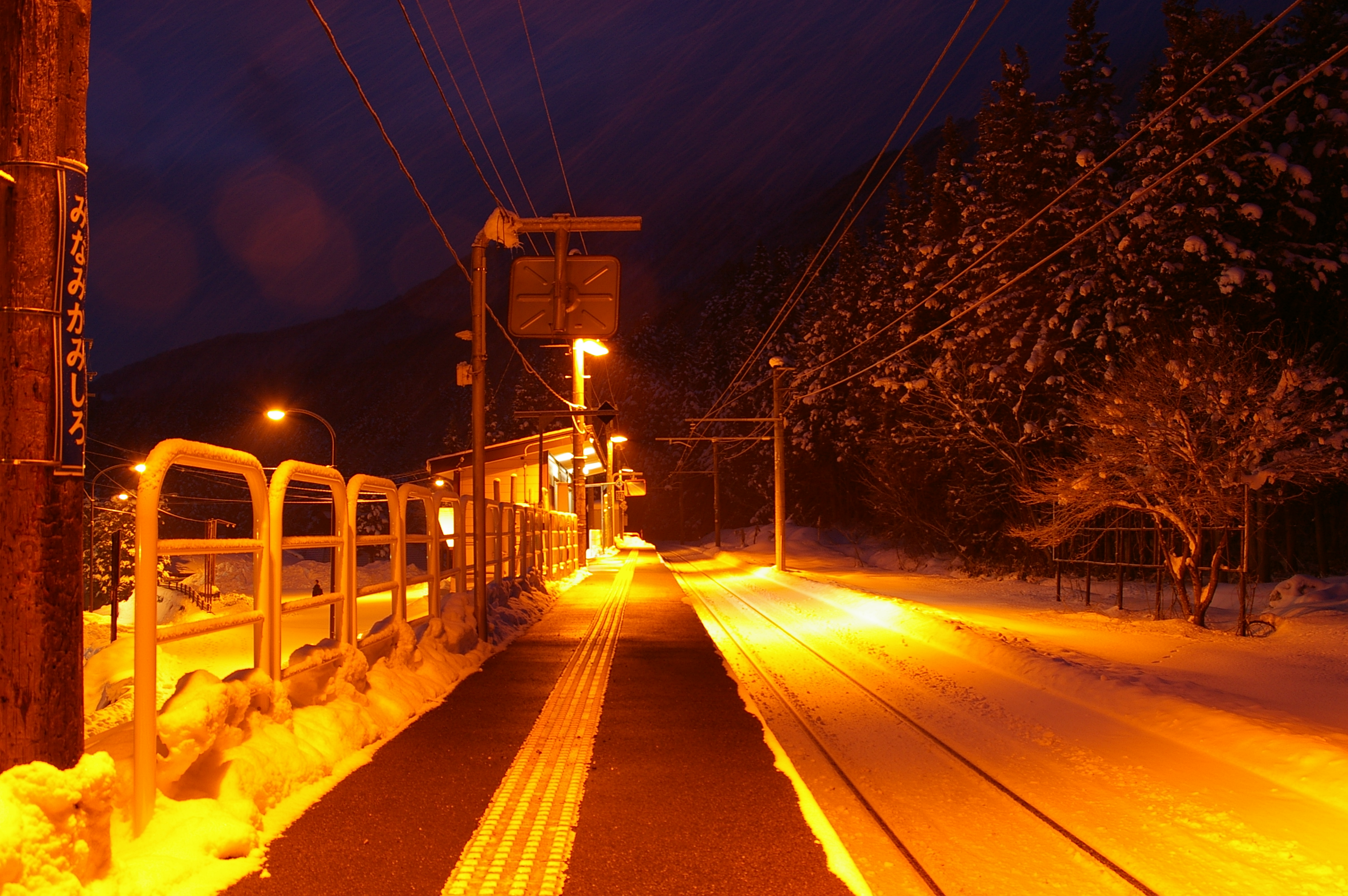 Minami Kamishiro Station, JR East Oito Line